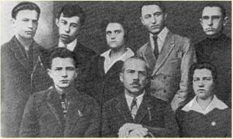 Belarusian association of Proletarian writers Беларуская (тарашкевіца): Сябры студыі і БелАПП. Зьлева направа: стаяць – А. Куляшоў, Ю. Таўбін, А. Якаўлева, Д. Астапенка, Я. Сінякоў; сядзяць: П. Скокаў, В. Гобец, Г. Сапрыка